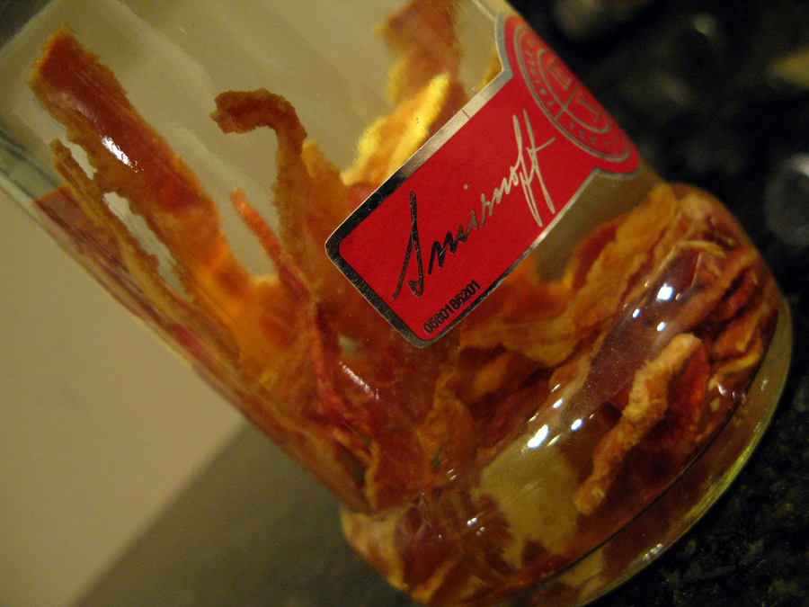 Stephanie is brewing a batch for the Memorial Day Bloody Marys